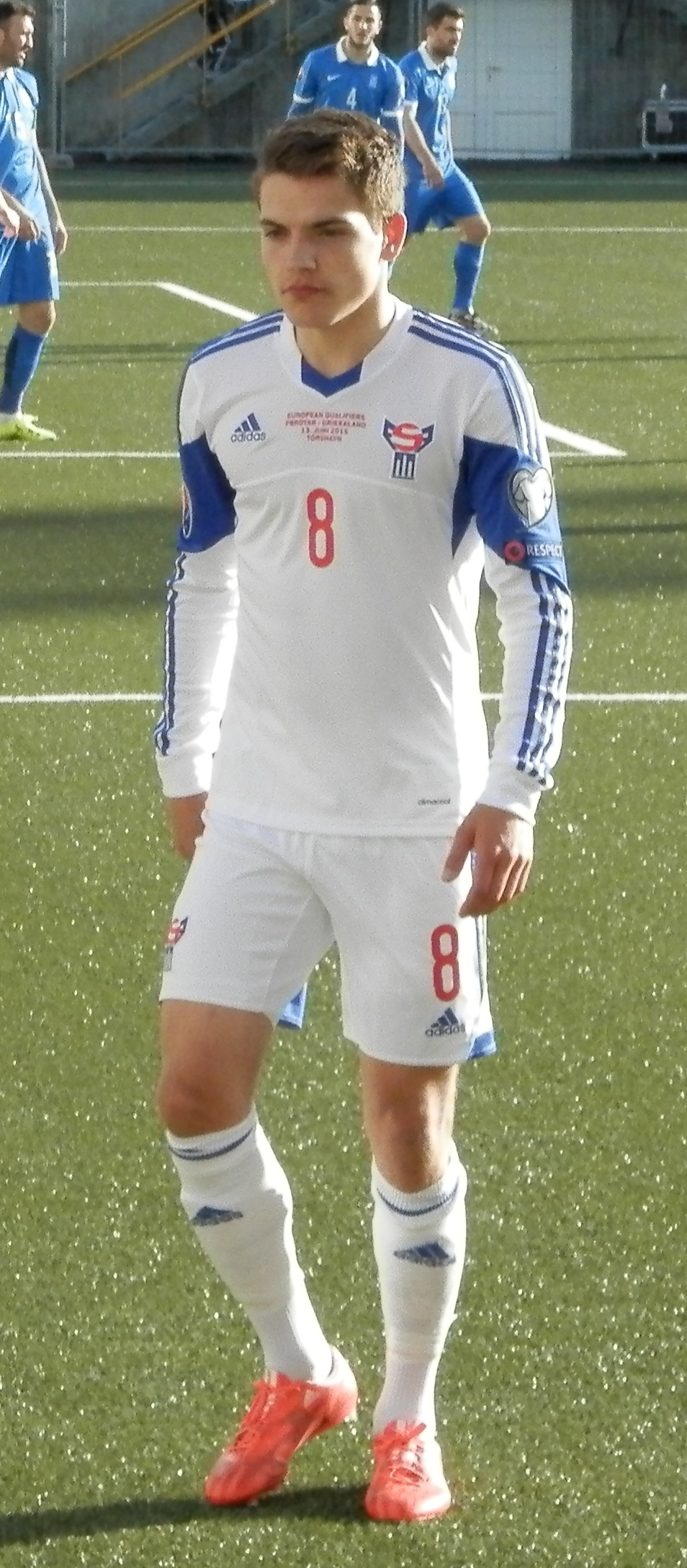 Brandur Hendriksson Olsen is a Faroese footballplayer.